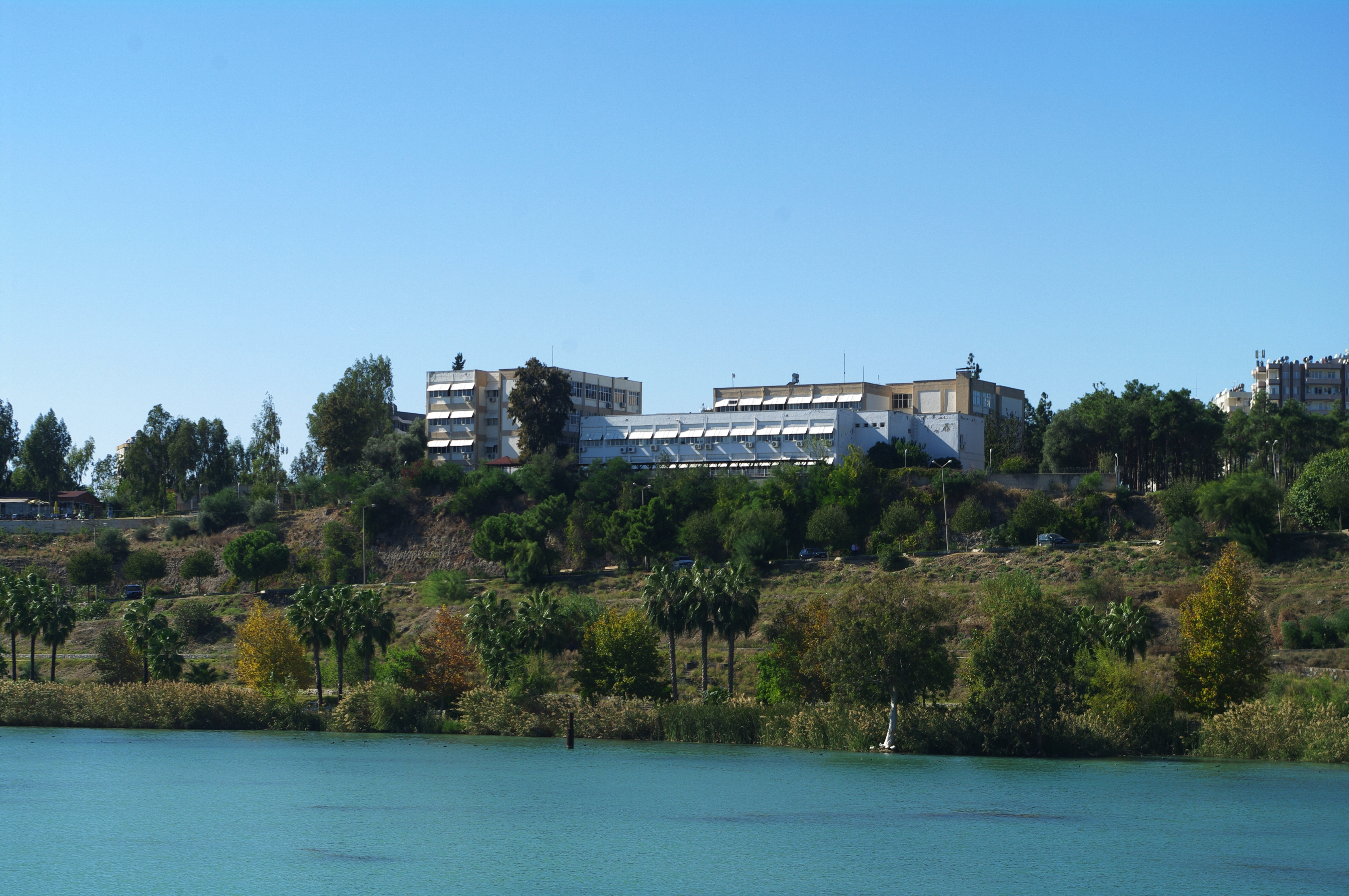 Adana Vocational High School, Çukurova University. Adana - Turkey.